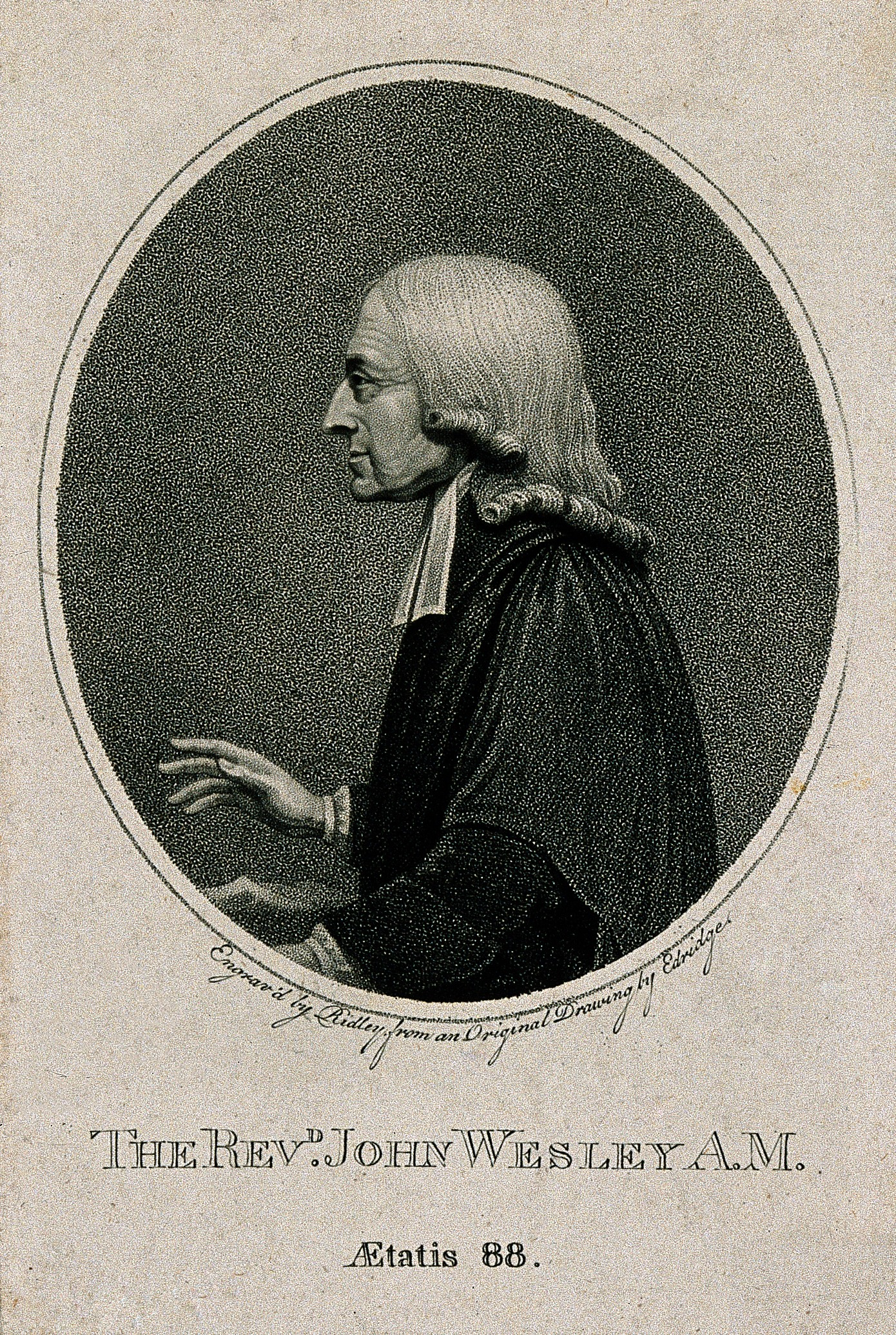 John Wesley. Stipple engraving by R. Hancock, 1790, after J. Miller. Iconographic Collections Keywords: John Wesley